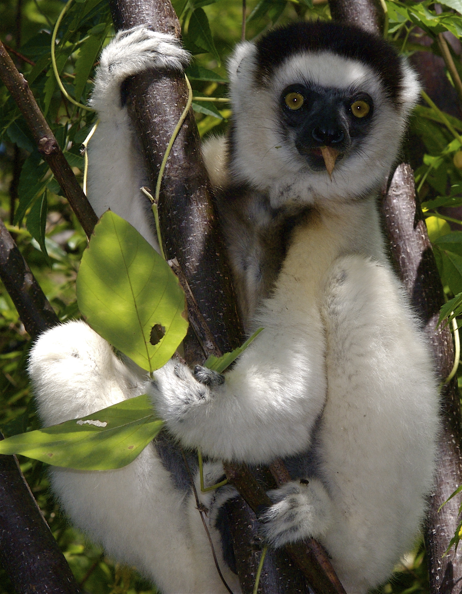 Verreaux's Sifaka (Propithecus verreauxi)